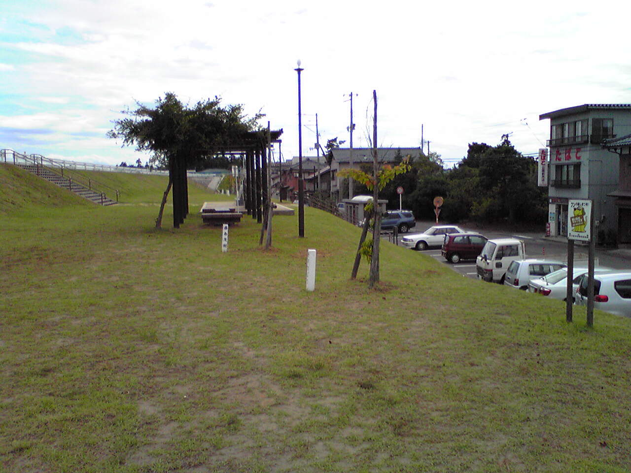 The park where there was Shirone Station of Niigata Kotsu Railway, which was abolished on 5 April 1999